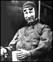 George Raymond Lawrence